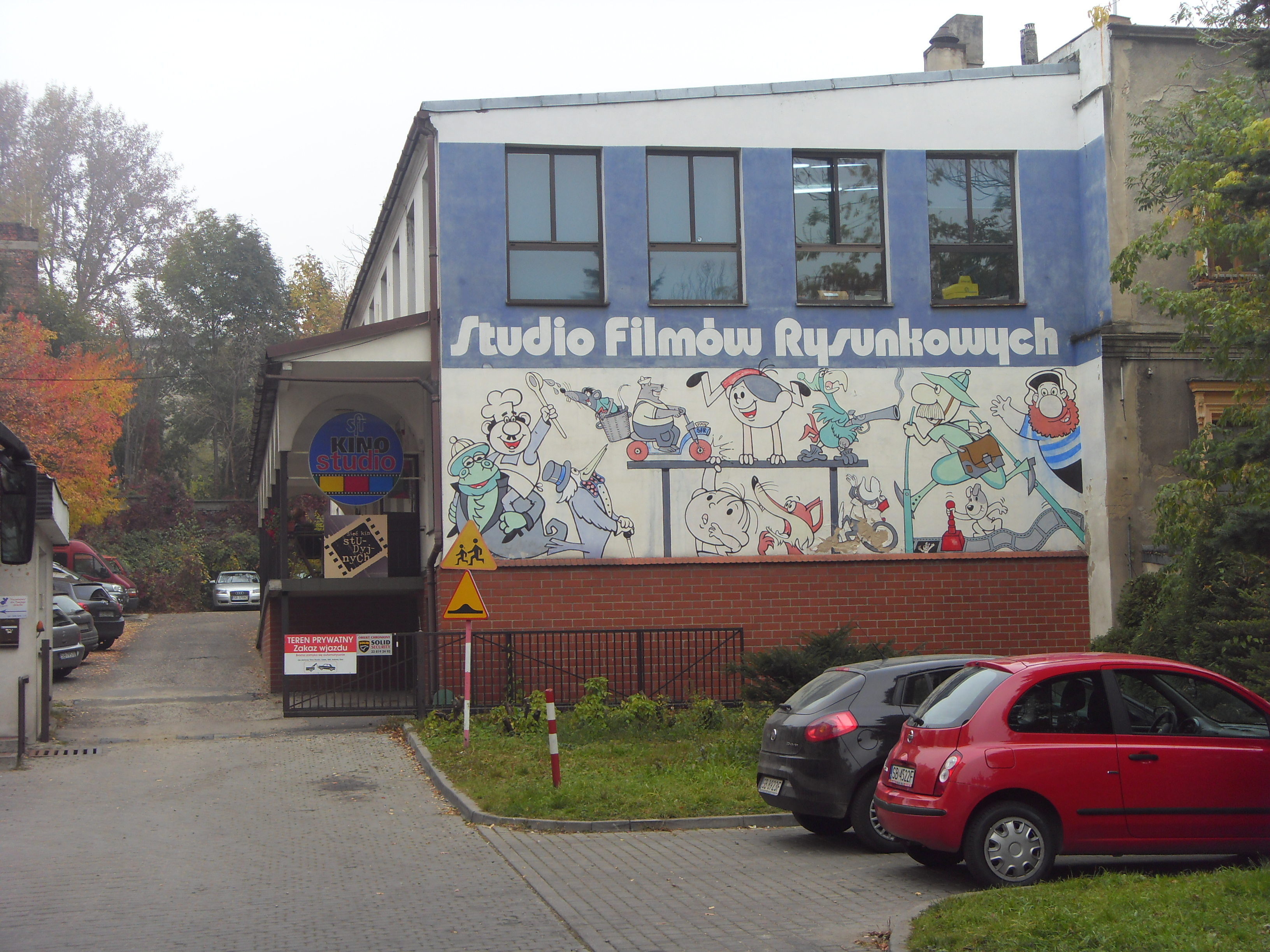 Studio Filmów Rysunkowych in Bielsko-Biała, entrance